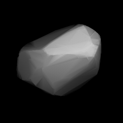 3D convex shape model of 1088 Mitaka, computed using light curve inversion techniques. J. Hanuš, J. Ďurech, M. Brož, B. D. Warner (June 2011). "A study of asteroid pole-latitude distribution based on an extended set of shape models derived by the lightcurve inversion method". Astronomy and Astrophysics 530: A134. ISSN 0004-6361. arXiv